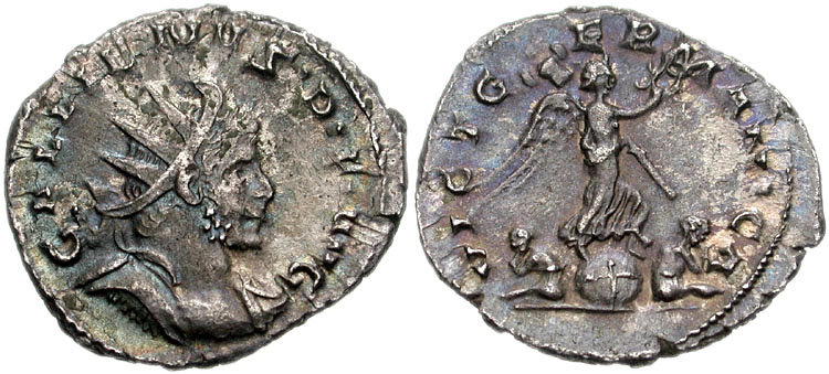 Gallienus. AD 253-268. AR Antoninianus (22mm, 3.72 g, 6h). Colonia Agrippinensium (Cologne) mint. 1st emission, AD 257-258. Radiate, draped, and cuirassed bust right VICT G-ERMANICA, Victory standing left on globe, holding trophy over shoulder and wreath between two captives in mourning seated on the ground. Cf. RIC V 49; MIR 36, 874l; cf. RSC 1062. Good VF, gray and iridescent toning, traces of deposits.